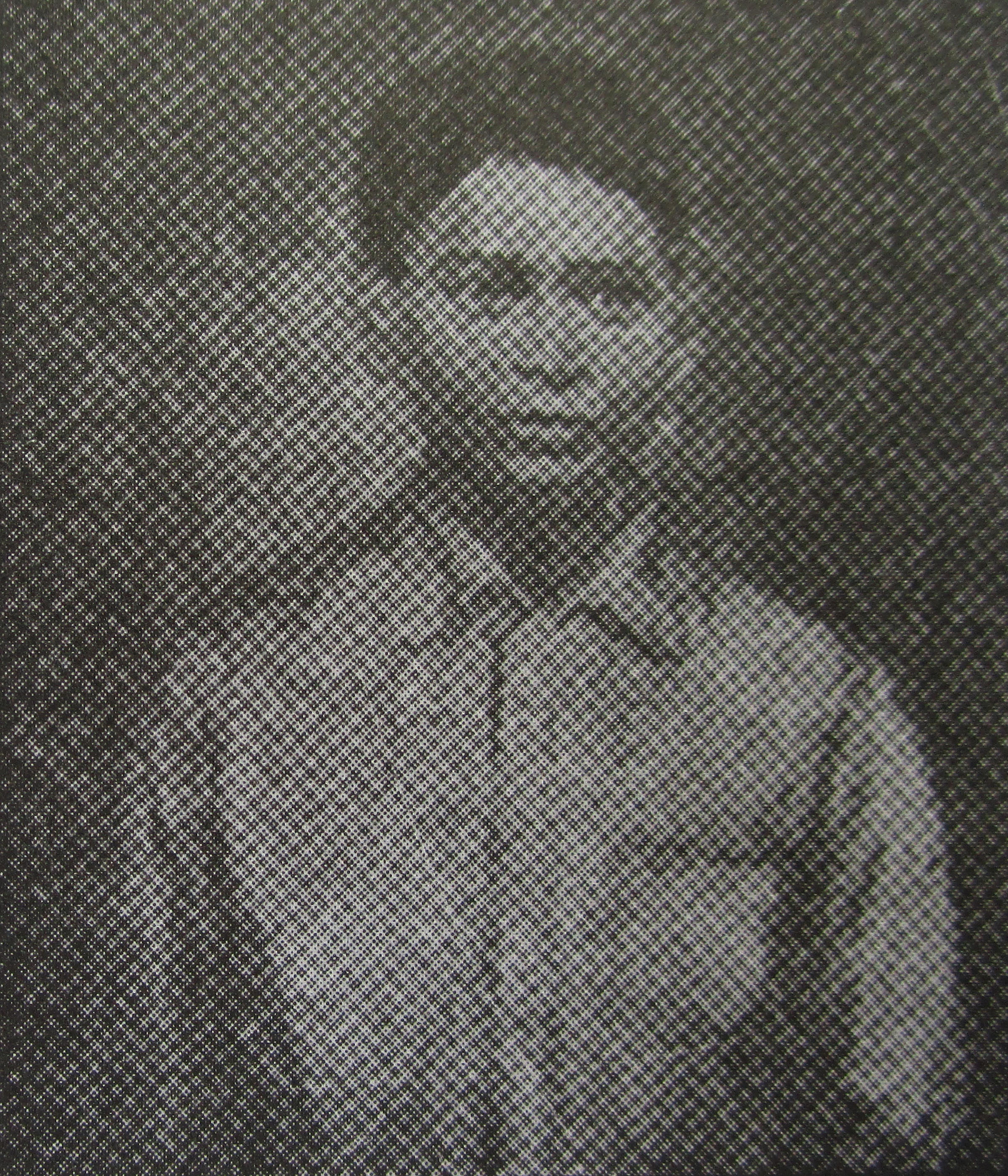 Mrigendranath Dutta